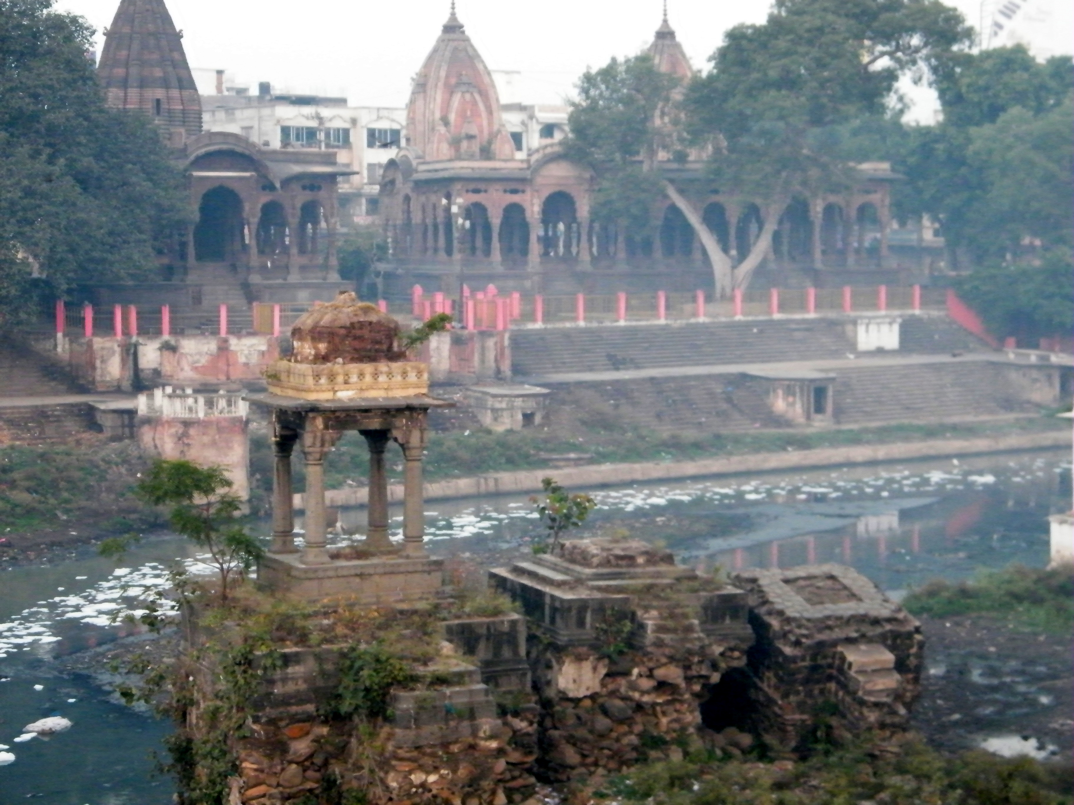 View of the much polluted Khan River, Indore. The Krishnapura Chhatri can be seen in the background.